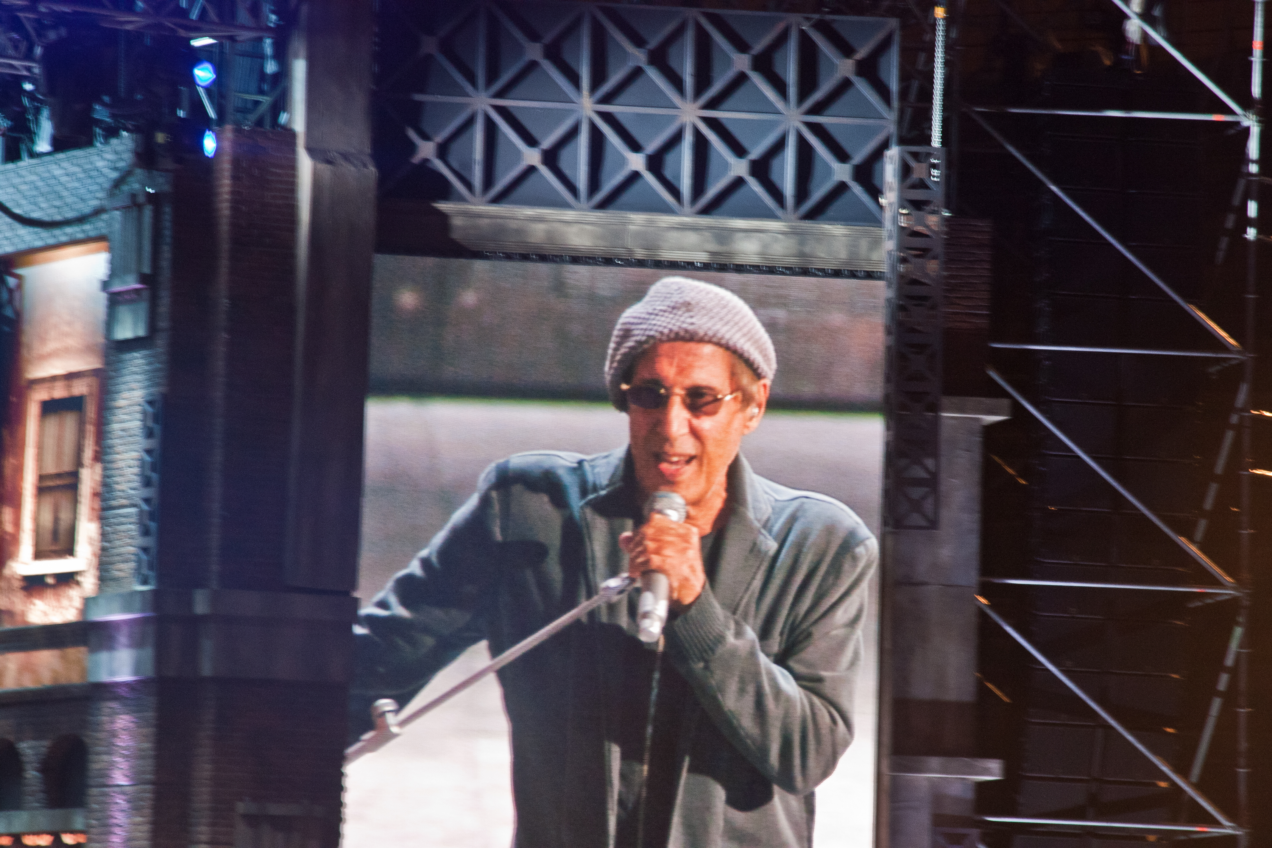 Adriano Celentano. Live in Verona.